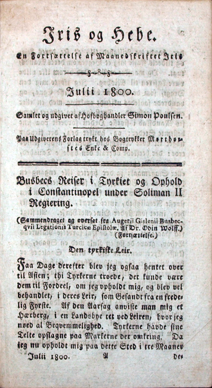 The title page of an issue of the Danish periodical "Iris & Hebe" from 1800.